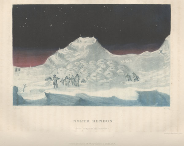 Igloos des Boothians à North Hendon, tiré de Narrative of a second voyage in search of a north-west passage, and of a residence in the Arctic regions during the years 1829, 1830, 1831, 1832, 1833 par John Ross (1835).